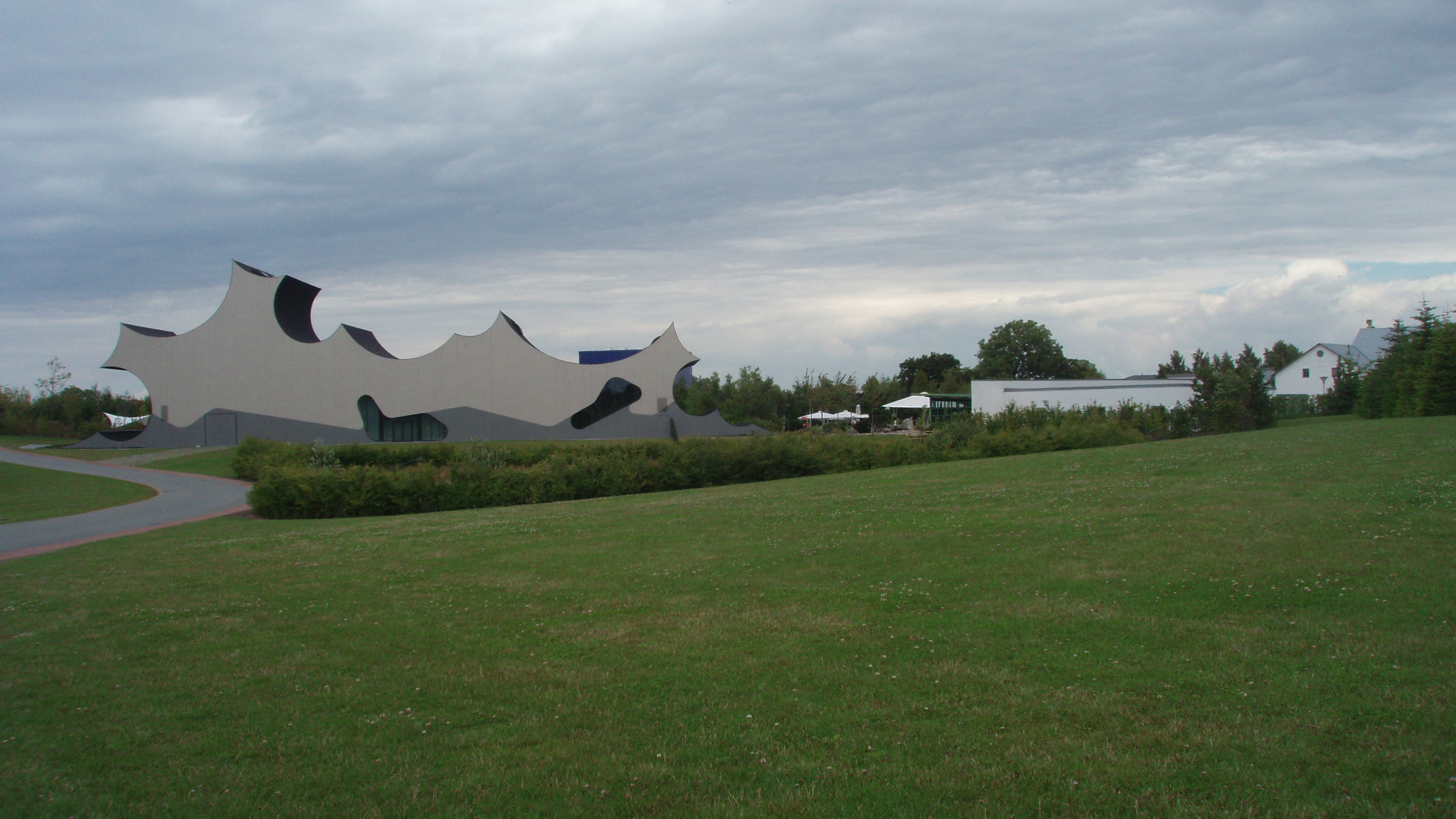 Danfoss Universe as seen from Nordborgvej, Havnbjerg, Denmark